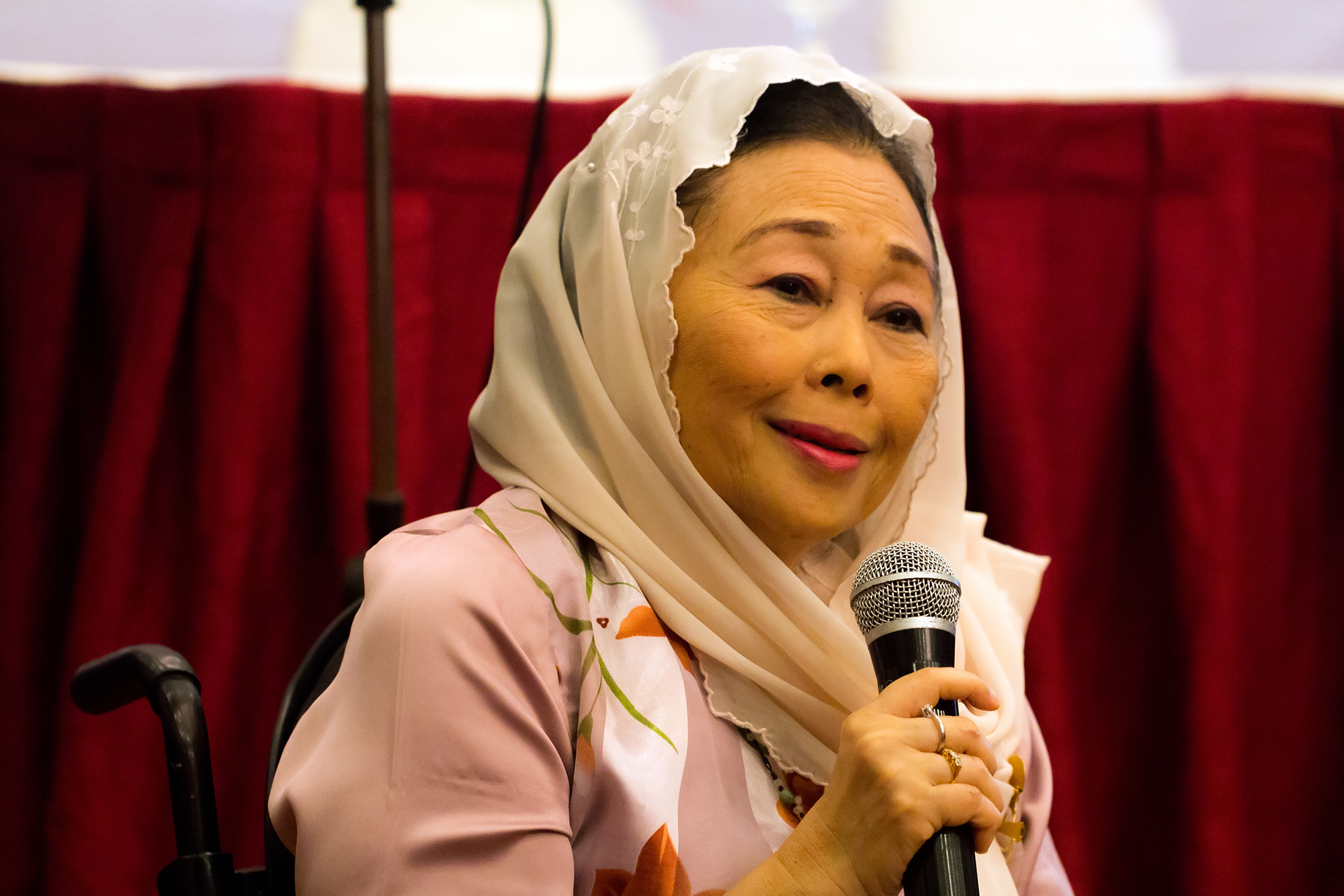 Sinta Nuriyah during the International Conference on Feminism, held by Jurnal Perempuan at the Swiss-Belhotel in Kemang, Jakarta